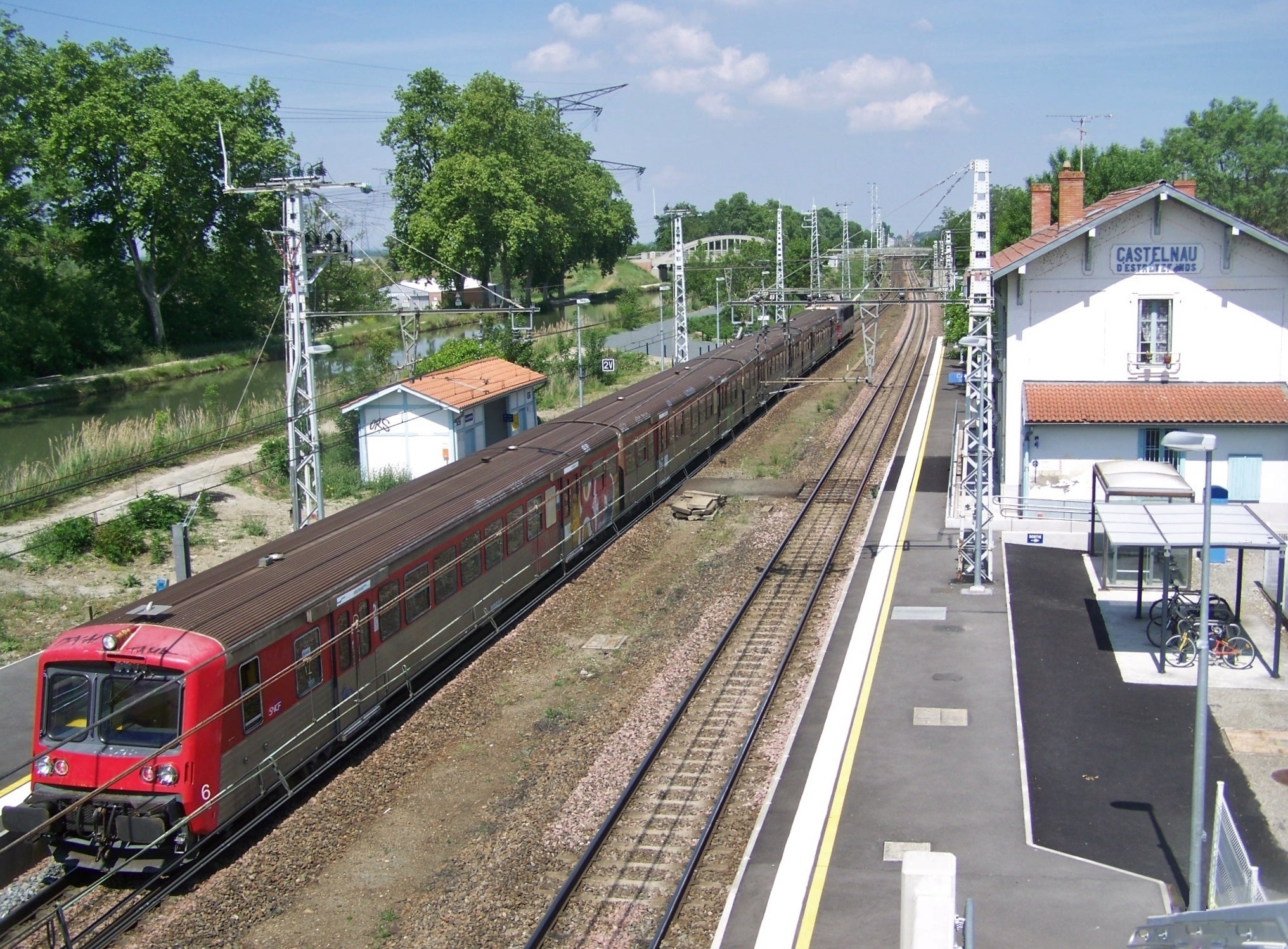 Sight of a French regional train coming from Toulouse stopped at Castelnau d'Estrétefonds railway station, in Haute-Garonne.